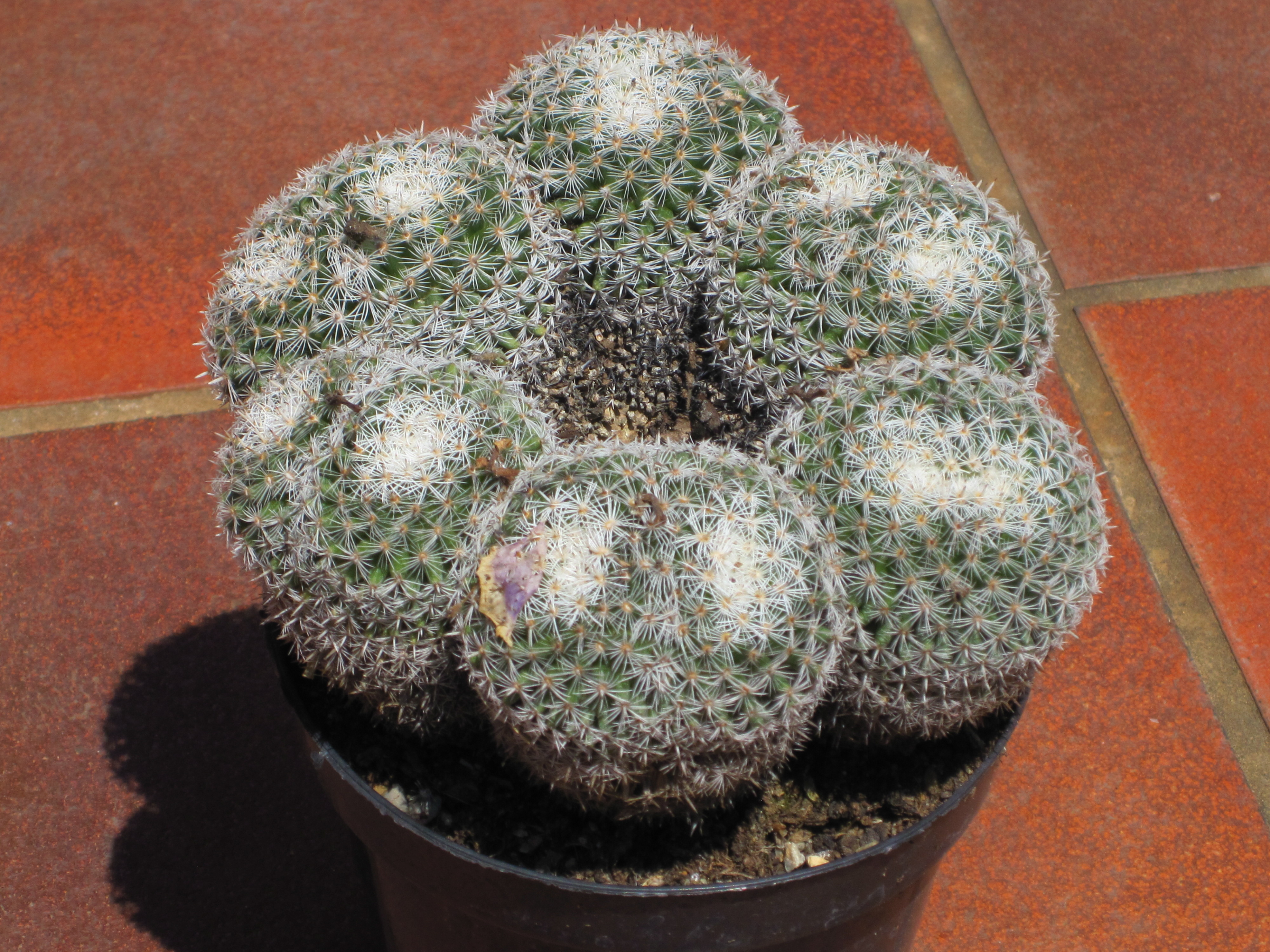 Old mammillaria perbella already dichotomized